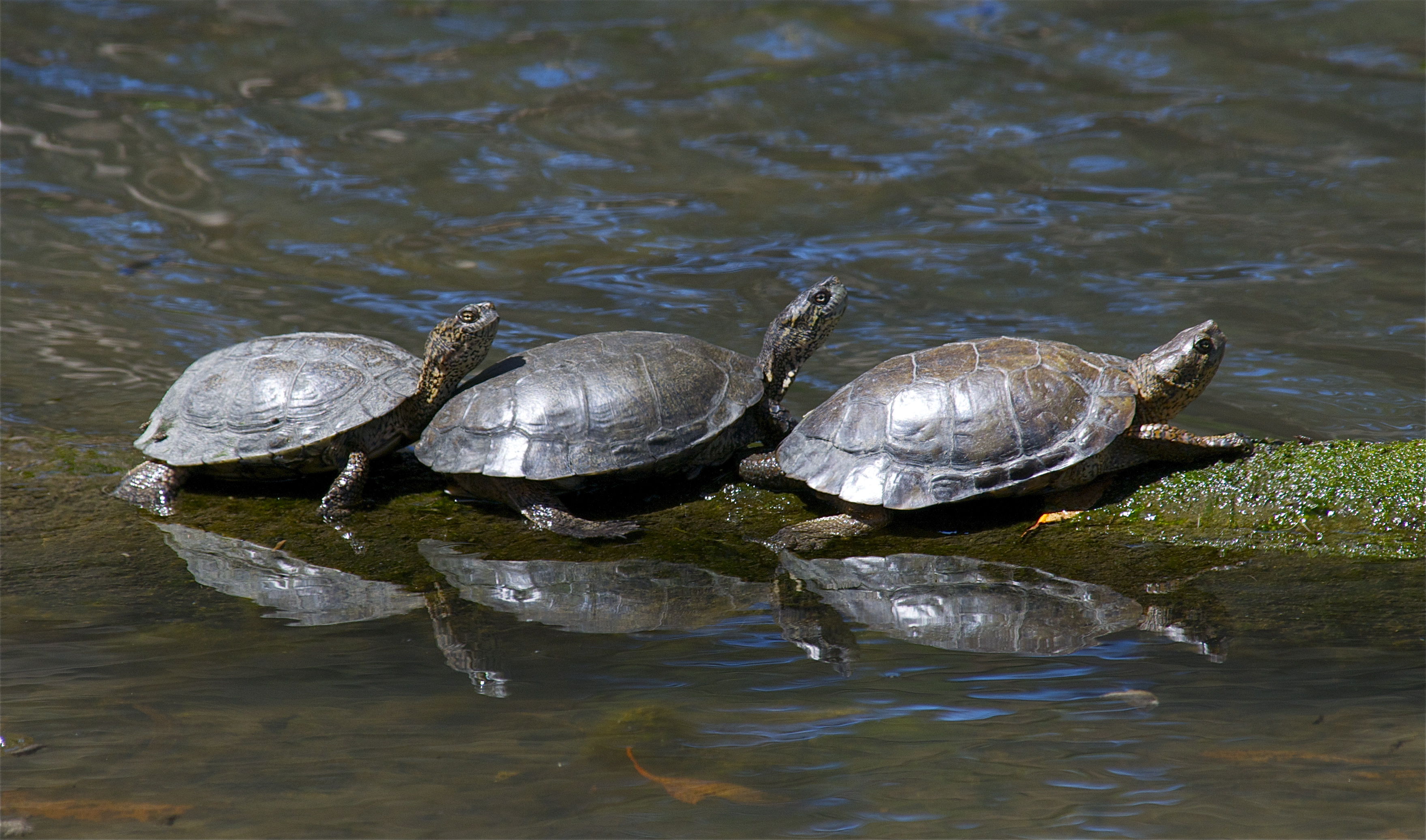 Western Pond Turtle